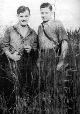 Mjr Hieronim Dekutowski "Zapora" and por. Zdzisław Broński "Uskok" - Polish Officers executed by Soviets in 1949